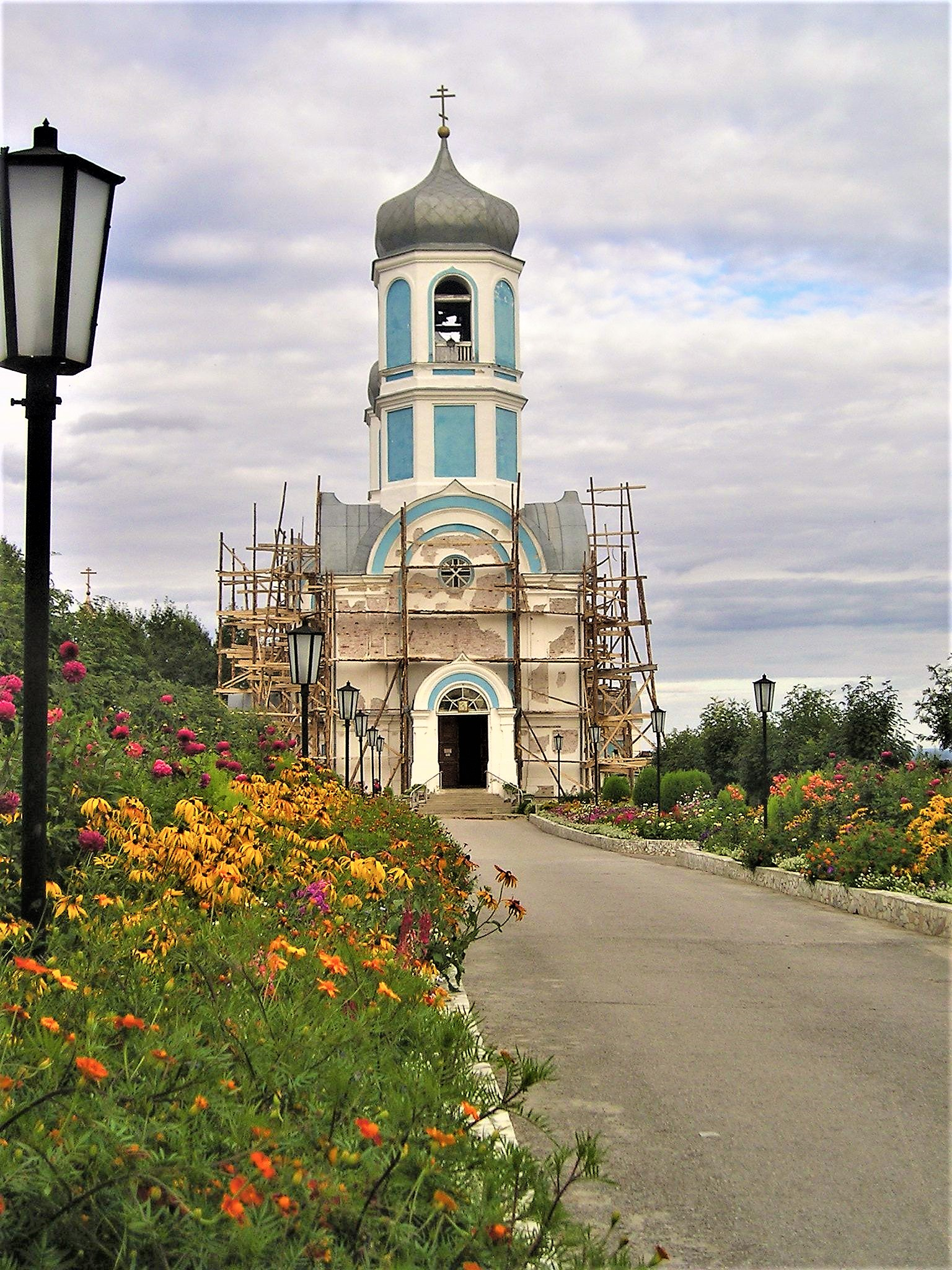 Alexander Nevsky church at Kolyvan, Novosibirsk Oblast, August, 2005